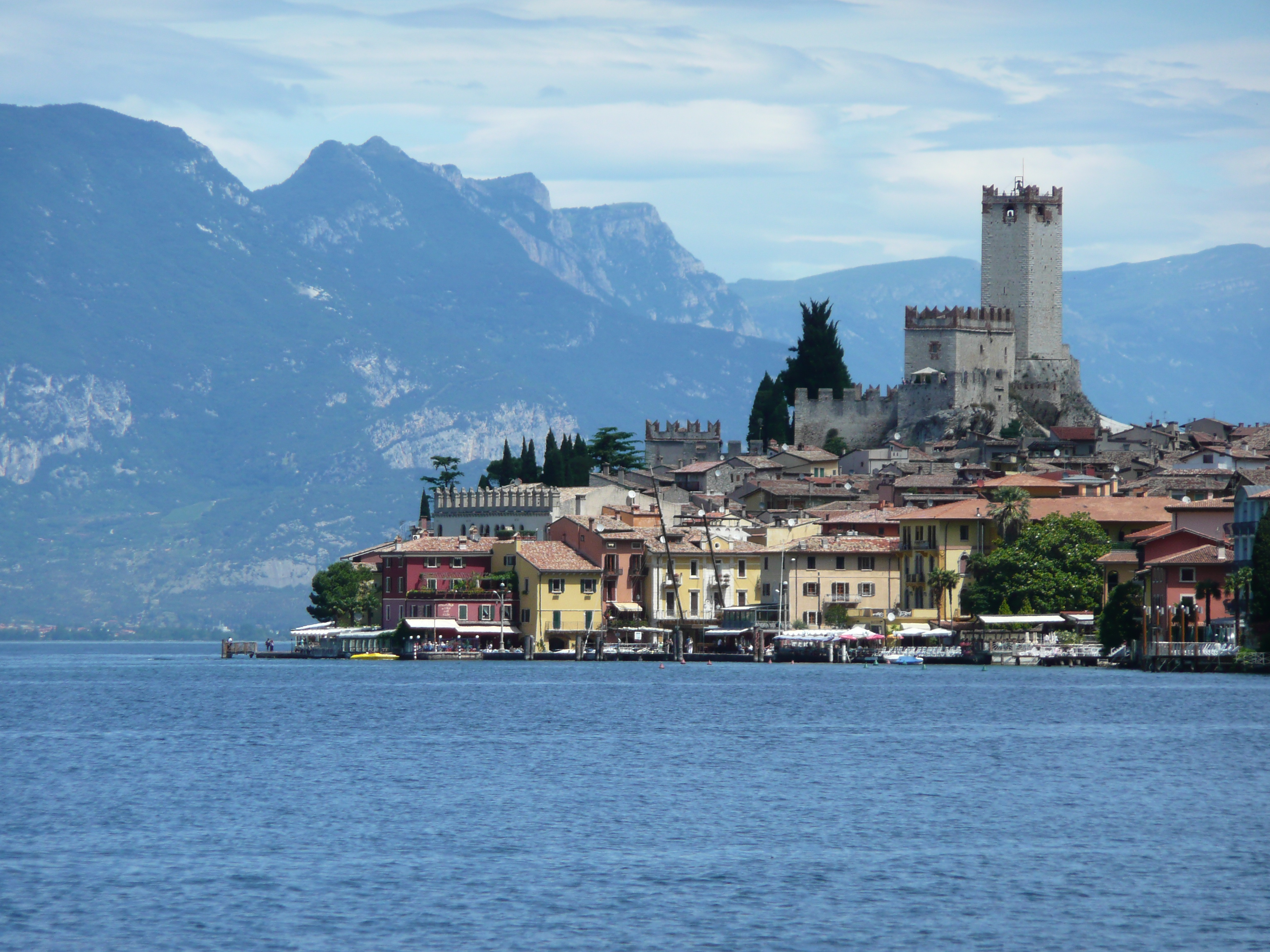 View of the town Malcesine on the front of lake garda, veneto, italy.